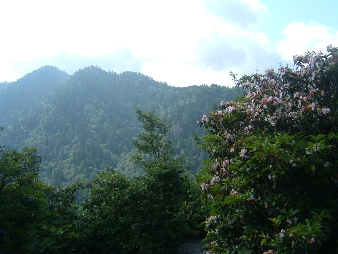 The Great Smoky Mountains National Park straddles the borders of Tennessee and North Carolina in the Appalachian Mountains of the United States of America.